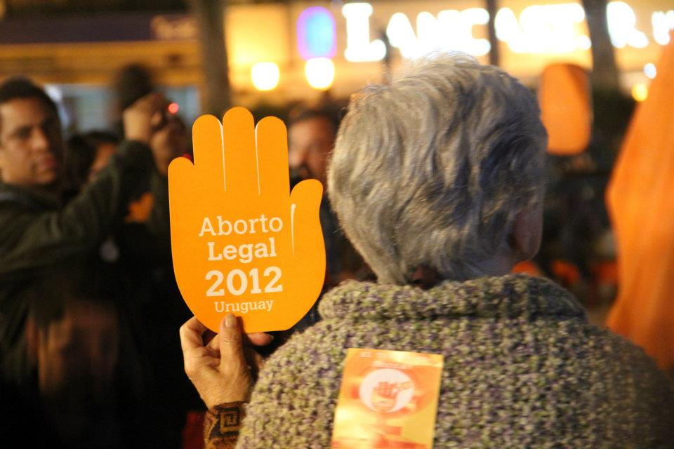 Old person holds a pro-choice pamphlet during a 2012 protest in Uruguay for the legalization of abortion.